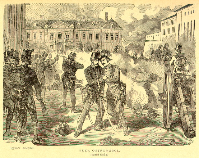 Etching of Heinrich Hentzi's death